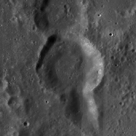 Vogel crater, on the moon. Lunar Reconnaissance Orbiter Wide Angle Camera (WAC) mosaic.